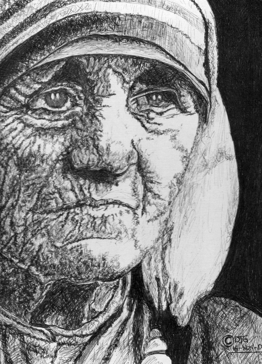 The Inspirational Mother Teresa. Medium = Bic Biro Pen.